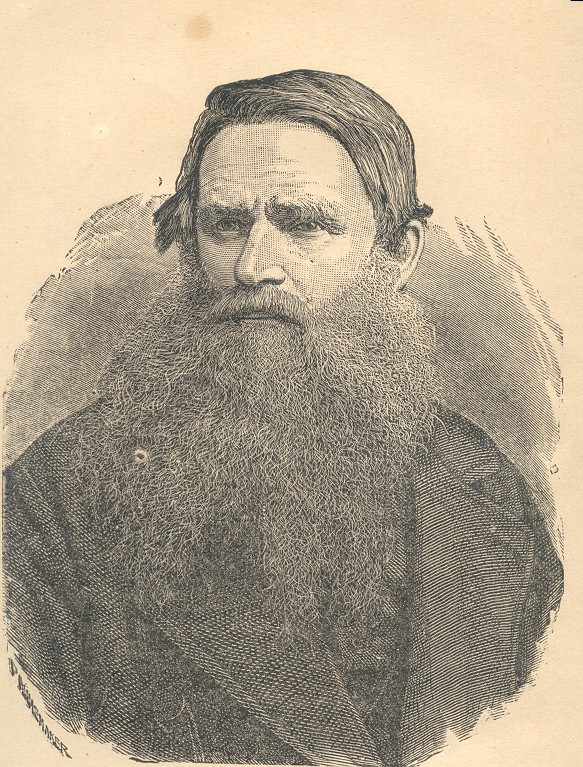 Father Henri Depelchin (1822-1900), a Belgian Jesuit, founder of several schools in India.